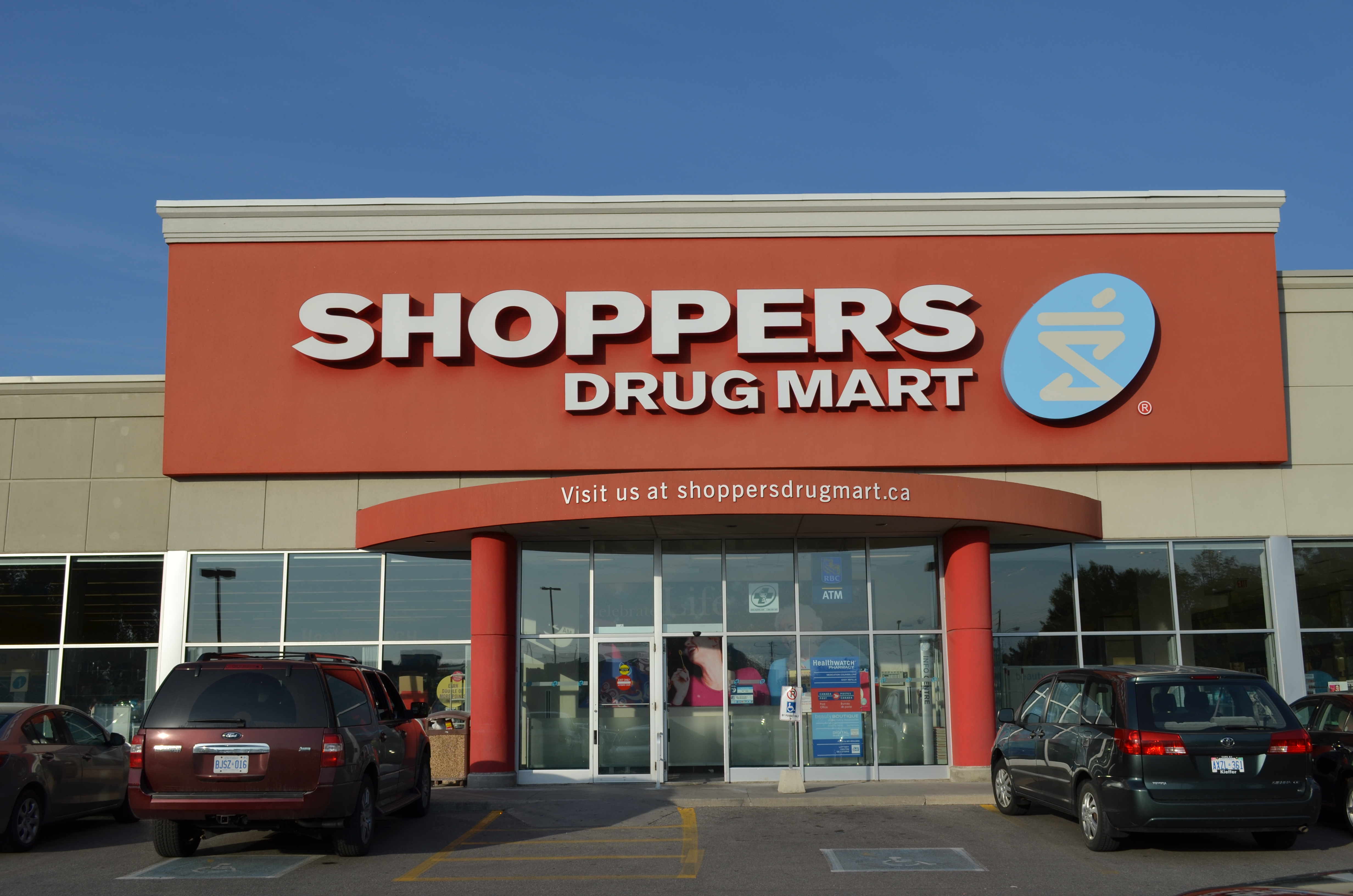 Shoppers Drug Mart, 298 John St, Thornhill